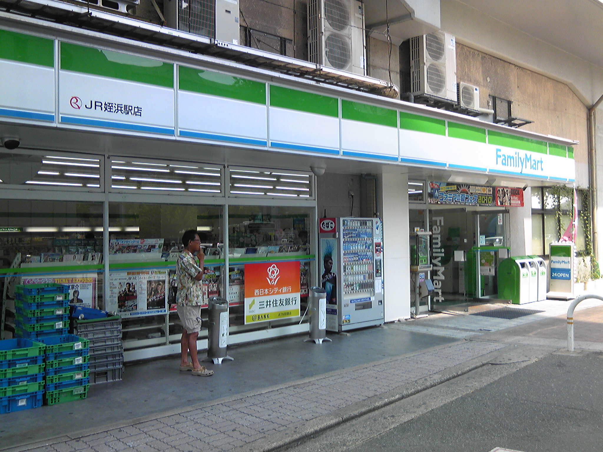 FamilyMart convenience store in Meinohama Station, Fukuoka City, Japan